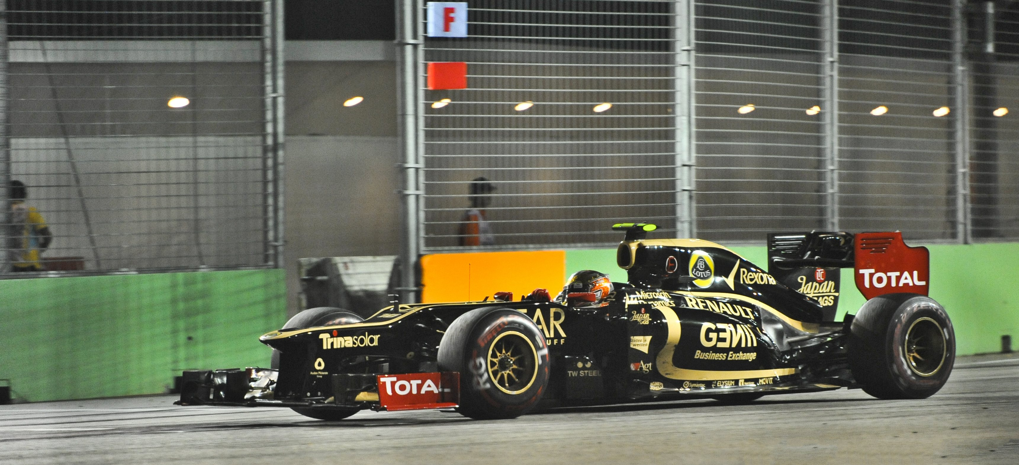 Singapore GP Final Race 2